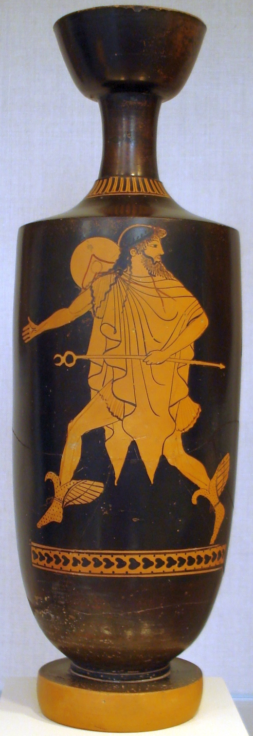 Lekythos depicting Hermes wearing a chlamys and petasos and bearing a kerykeion. Greek, Attic, c. 480-470 BC. Red figure. Attributed to the Tithonos Painter